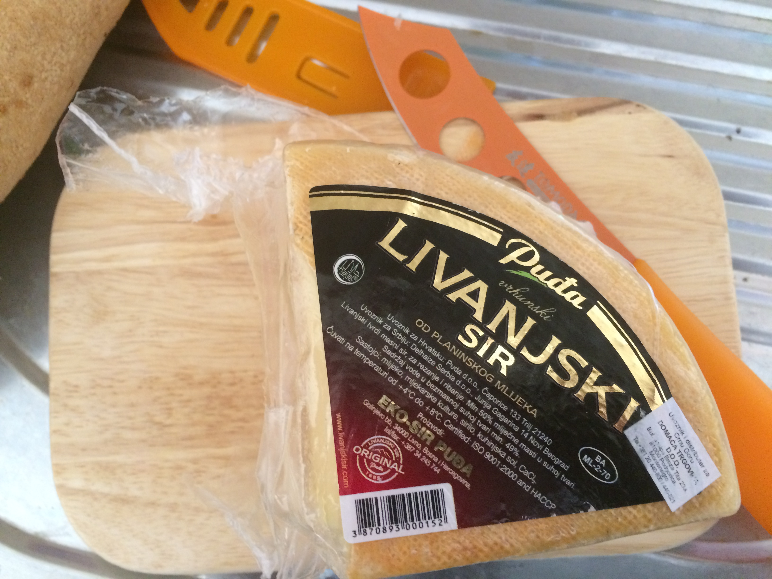 Photograph of Livanjski cheese with a manufacturer's labelHrvatski: Fotografija livanjskog sira sa proizvođačevom etiketom.